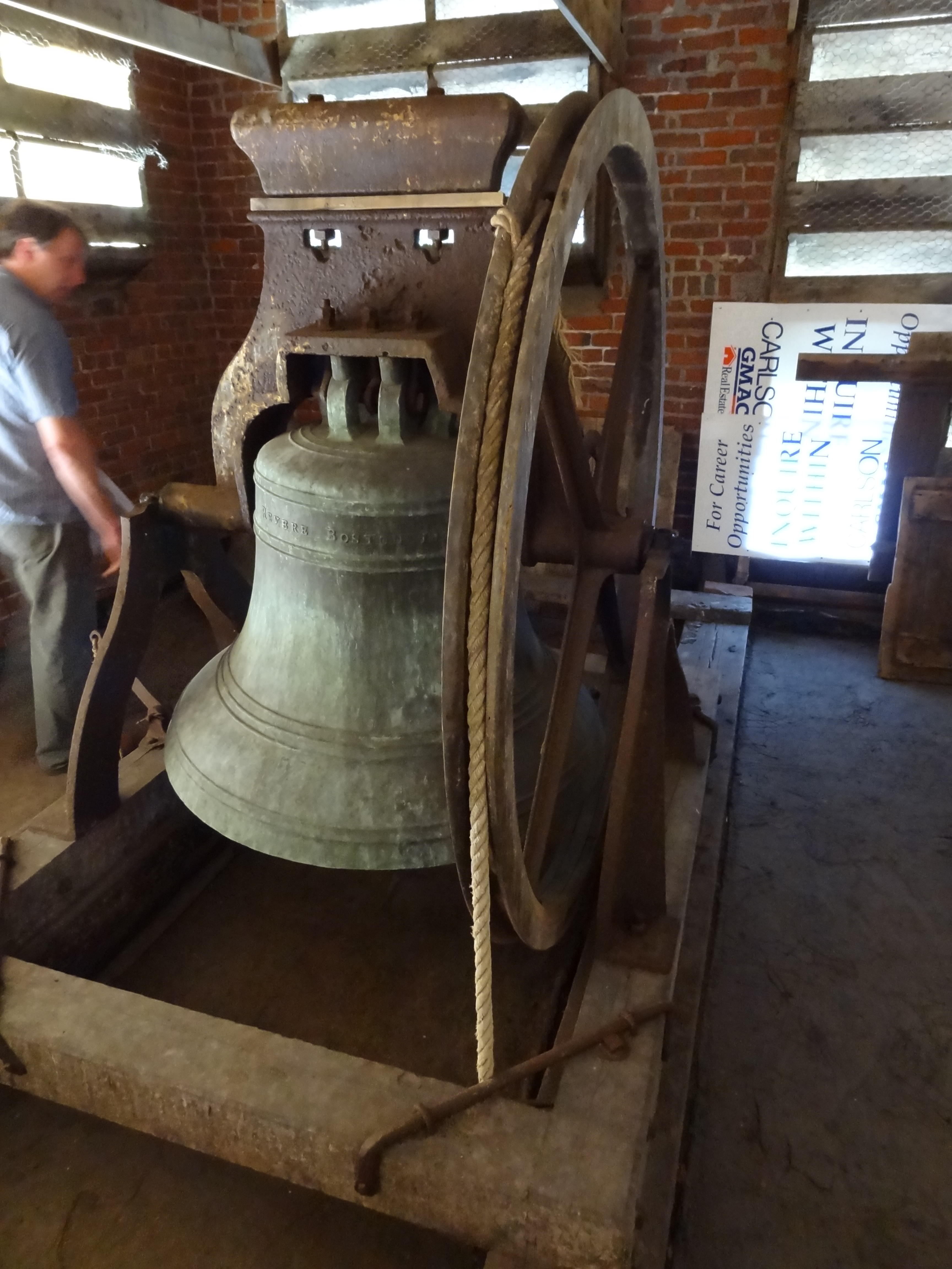 The front side of the church bell of Pawtucket Congregational Church. The bell is from the Revere Company and inscribed with the number 112; it was made in 1822. Taken from top level of the tower on the south side of the church. Located at 15 Mammoth Road, Lowell, Massachusetts.